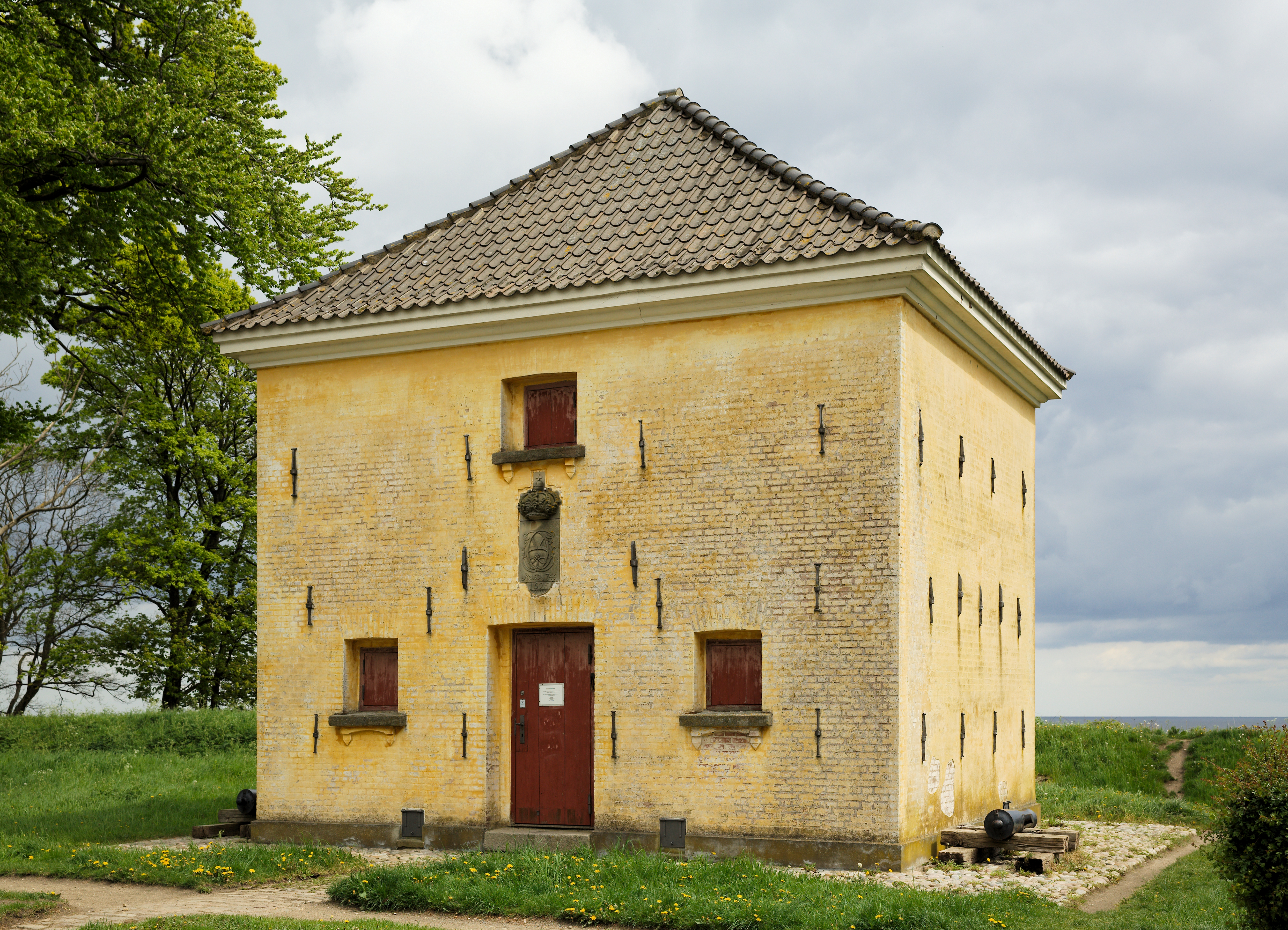 Powder Tower was built in 1675 and is the oldest surviving military building in Fredericia.